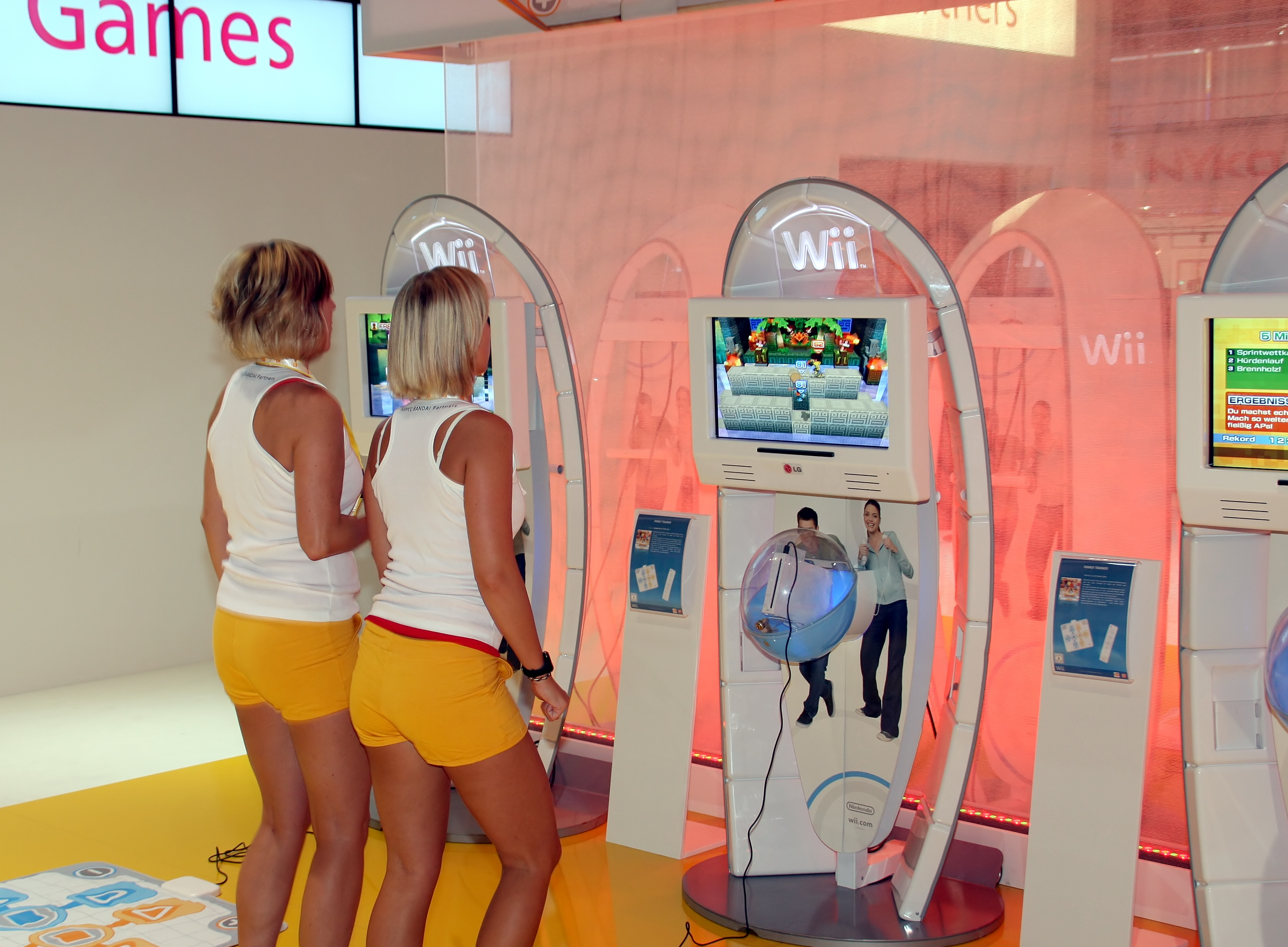 Booth of Nintendo, presenting Wii, on the Gamescom 2009, Cologne